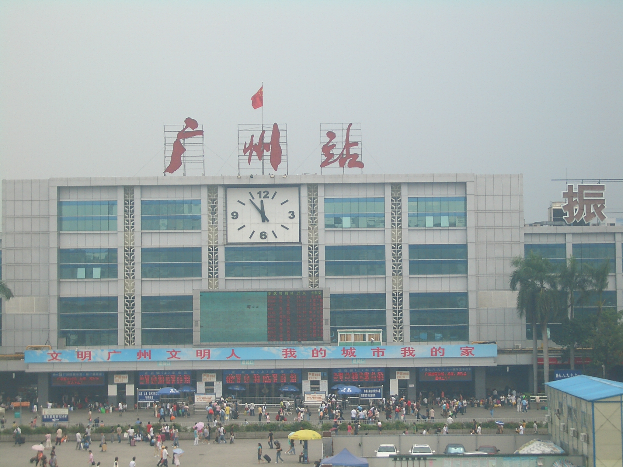 Main train station in Guangzhou